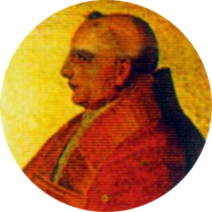 Portait of Pope Martin V in the Basilica of Saint Paul Outside the Walls, Rome